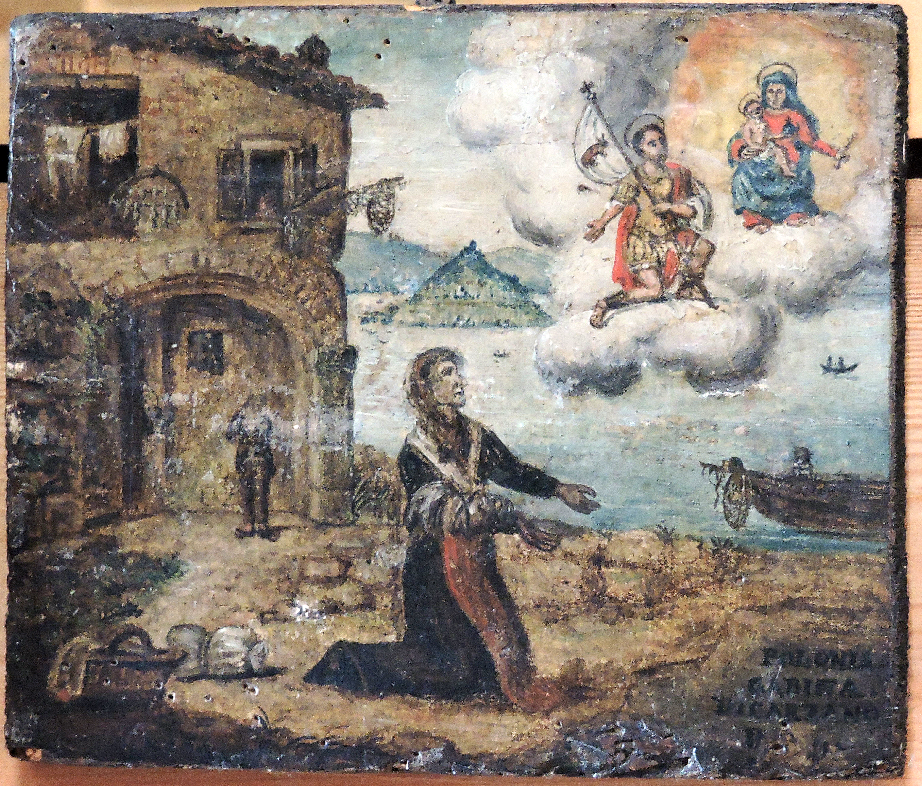 Santuario della Madonna della Ceriola (monte Isola, BS, Italy): ex-voto